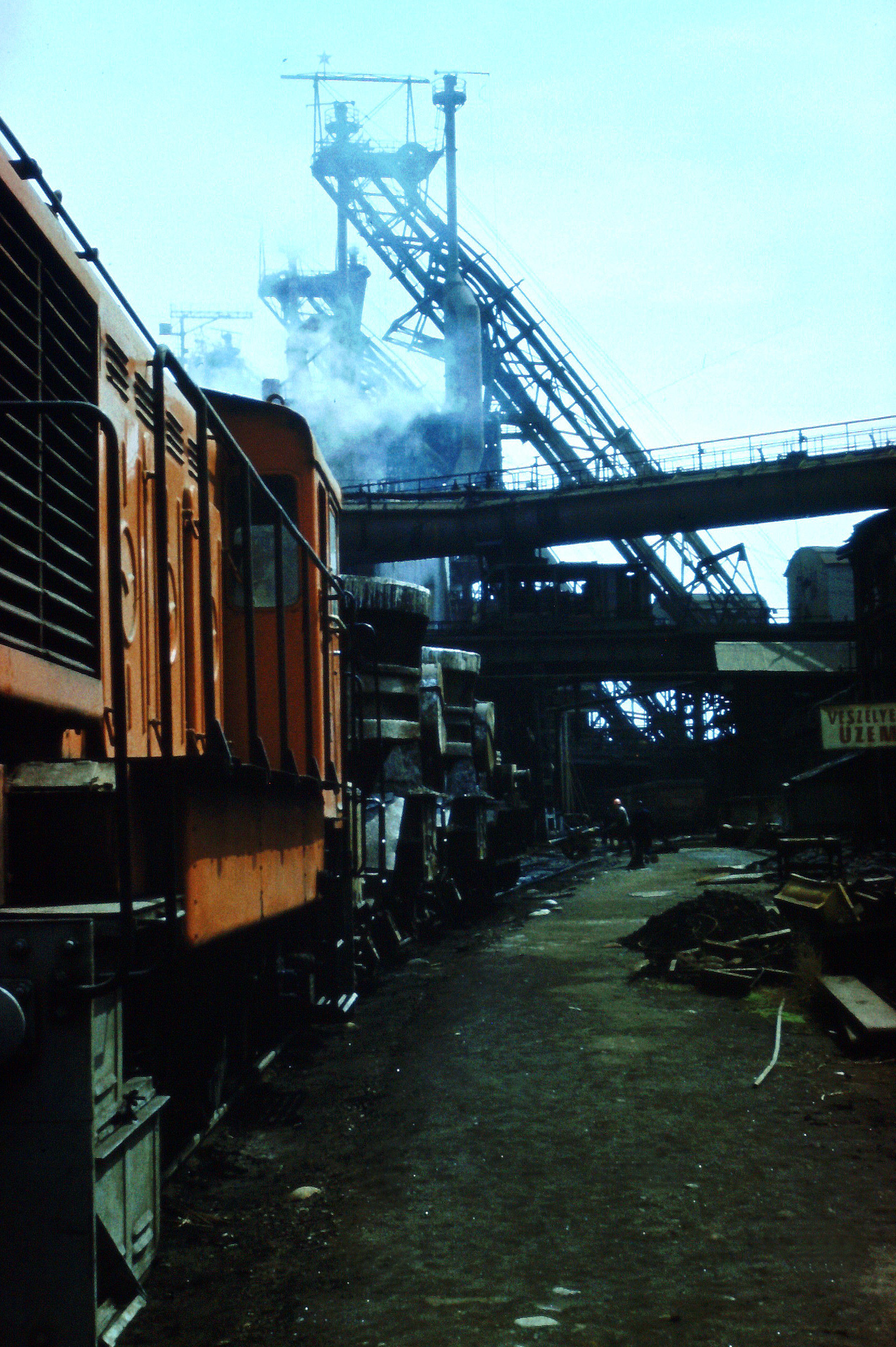 Blast furnace in Diósgyőr Steelworks in 1977, Miskolc, Hungary